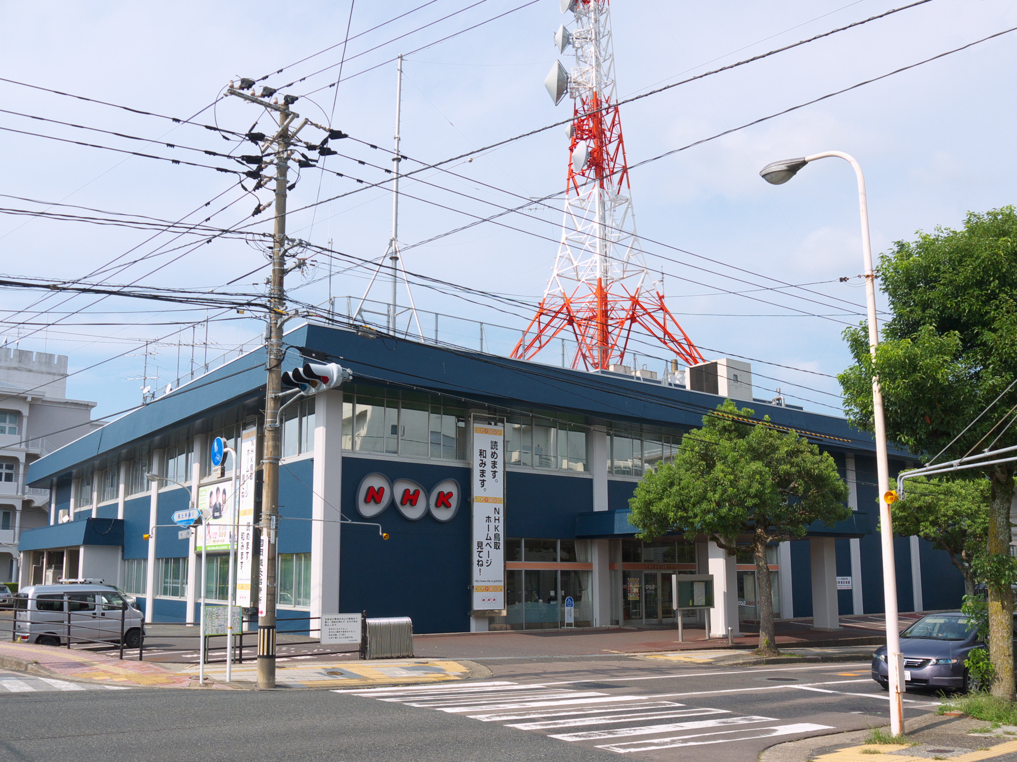 NHK Tottori Broadcasting Station, Tottori, Japan.